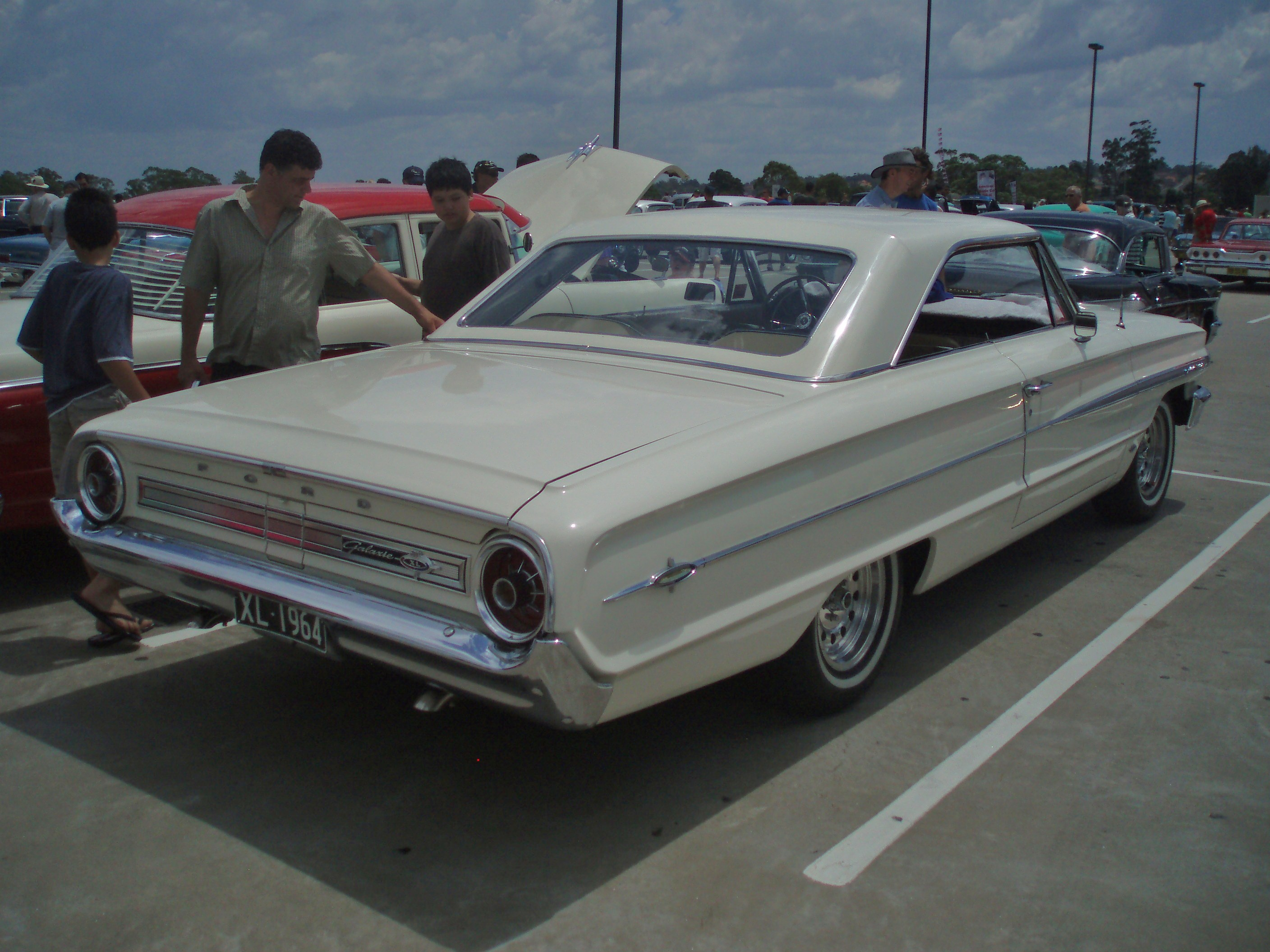 1964 Ford Galaxie 500 XL coupe. Taken at the 2010 New South Wales All American Day, held at Castle Towers Shopping Centre, Castle Hill, Sydney.